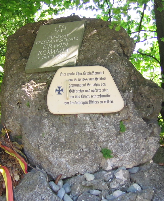 A memorial at the site of Field Marshall Erwin Rommel's death outside of the town of Herrlingen, Baden-Württemberg, Germany (west of Ulm). Translation of the original text in